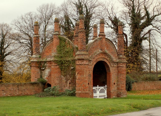 Erwarton Hall Gatehouse Dated 1549, this is the Gatehouse to the Elizabethan Erwarton Hall, which was built by Sir Philip Parker. It is a rather unusual design.